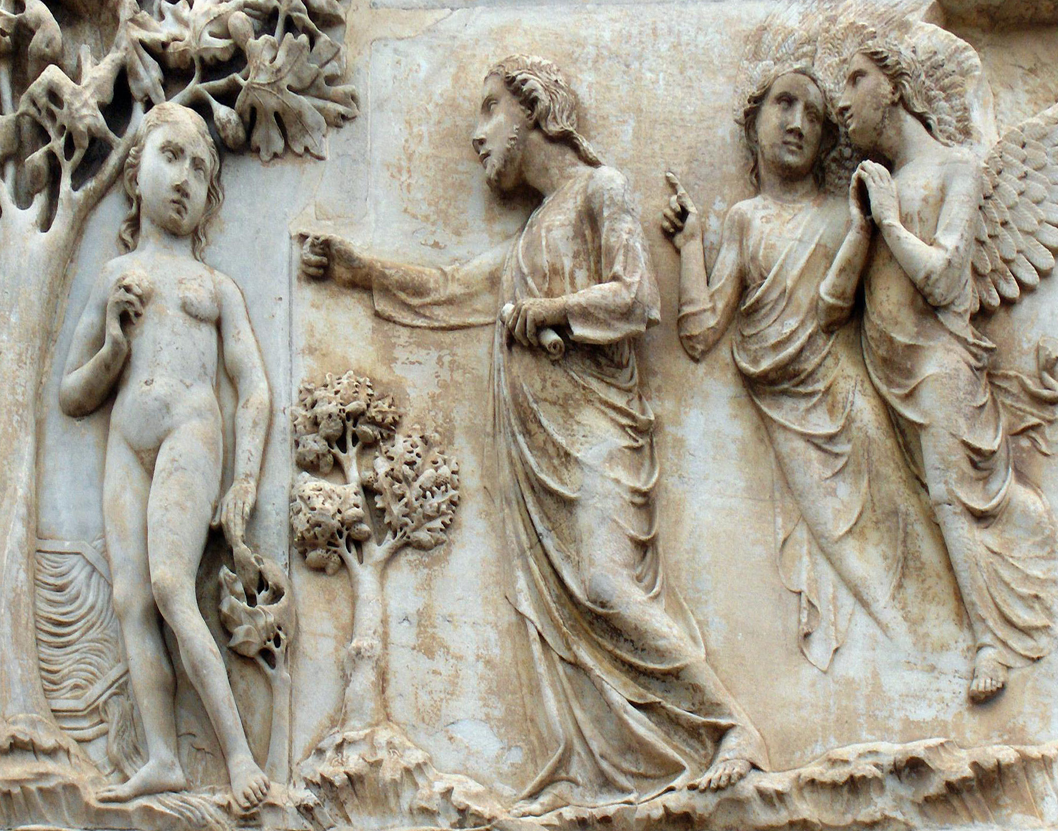 Genesis : God the Father forbids Eve to pick the fruit from the tree of good and evil; marble bas-relief on the left pier of the façade of the cathedral; Orvieto, Italy